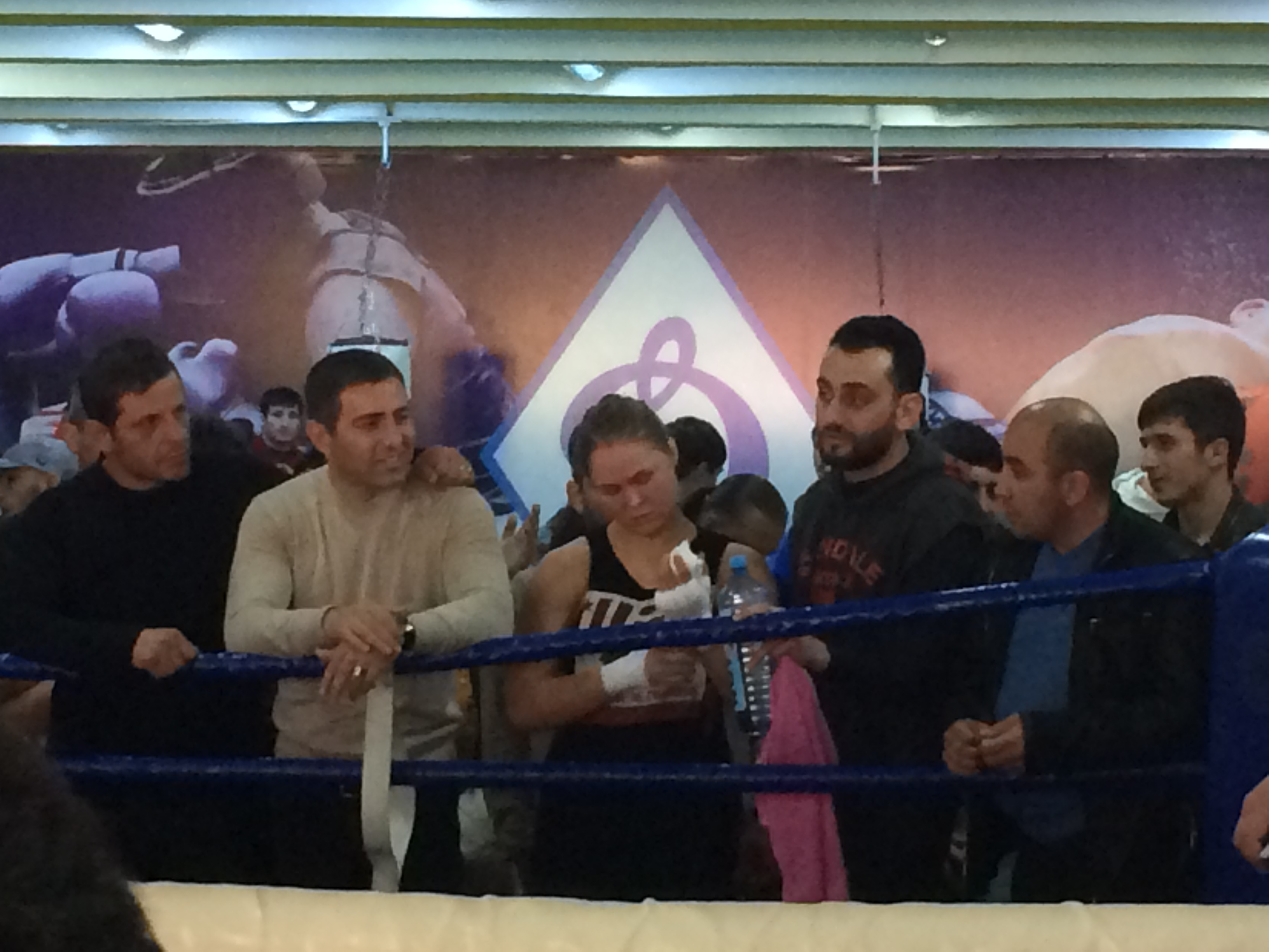 Ronda Rousey after her open workout at Dinamo center, Yerevan, Armenia.